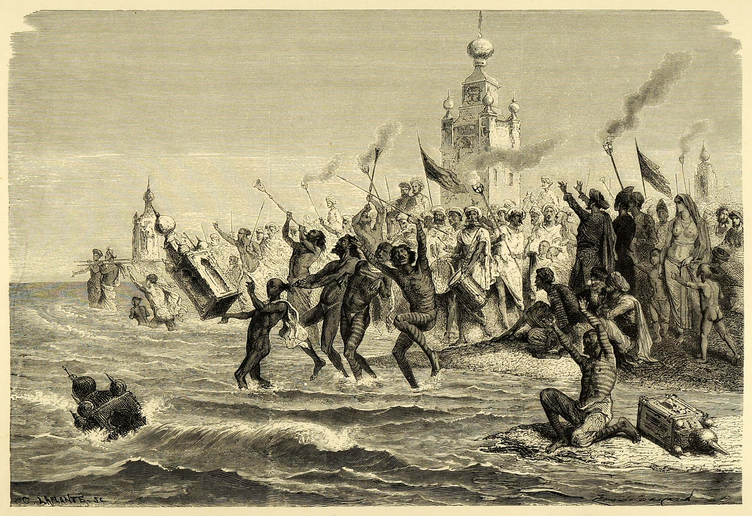 Muharram procession of Shia Islamic community has been observed in South Asia, and documented in the British colonial rule era. The temporary structure called Tazia (Taboot) passed annually through the streets in a mourning procession for Imam who was killed in the 7th century by a Sunni Caliph. The procession would proceed to a water body such as river or ocean for immersion. Above painting is by Emile Bayard in 1878, showing the Tazia (with a dome) behind the wailing crowd, arriving in Bay of Bombay for immersion.